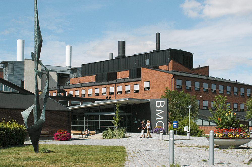 LU BMC